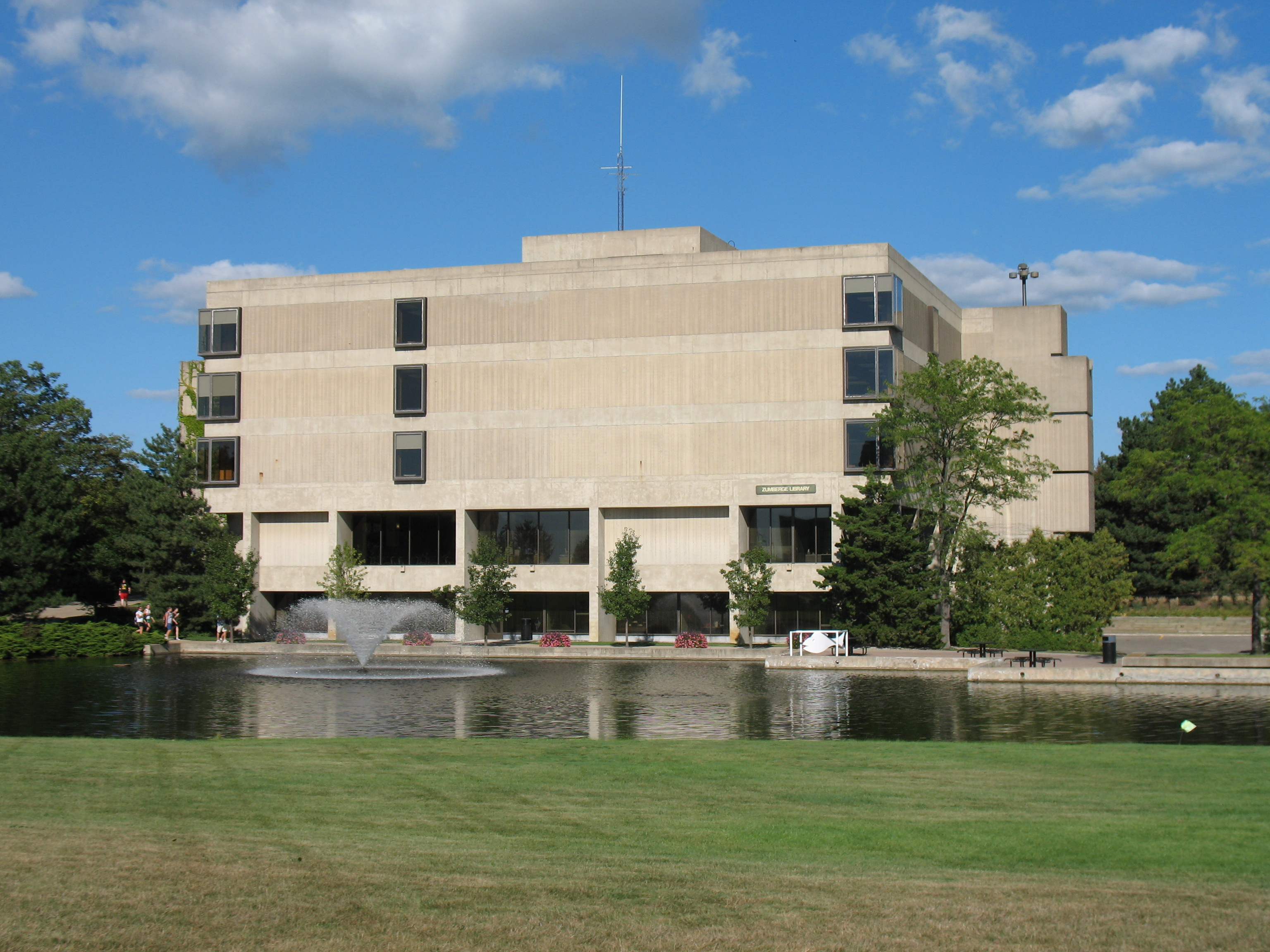 The James H. Zumberge Library, Grand Valley State University, Michigan.